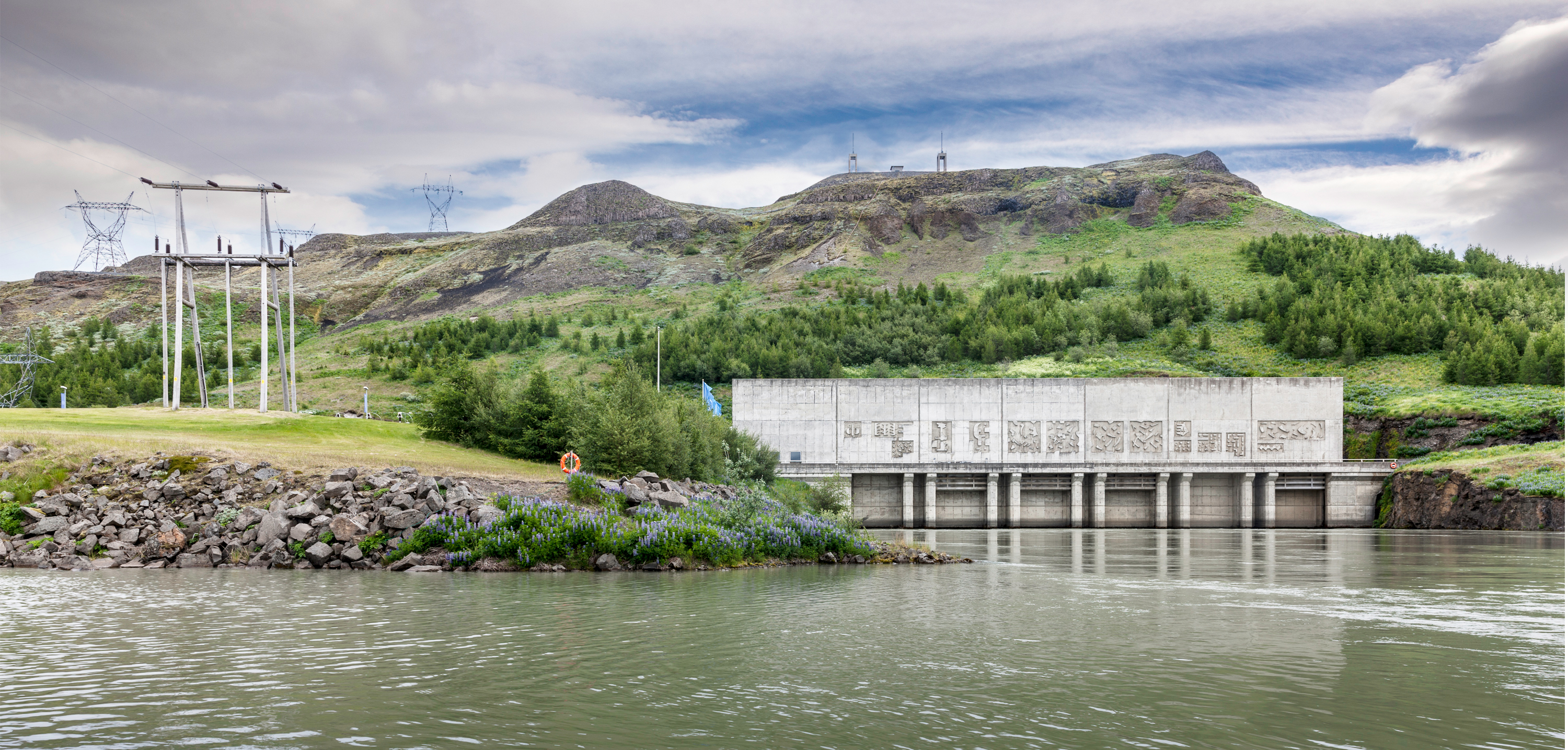 Burfell hydroelectric power plant at the river Thjorsa, Iceland